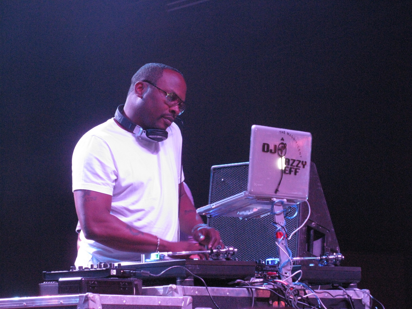 This is DJ Jazzy Jeff performing at the Palladium Ballroom in Dallas, TX as part of the "Duke Nukem Forever" launch party.